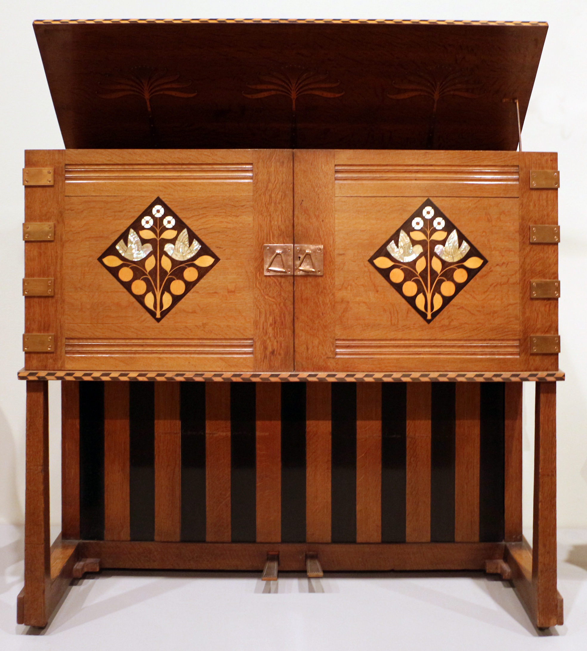 European furniture in the Art Institute of Chicago